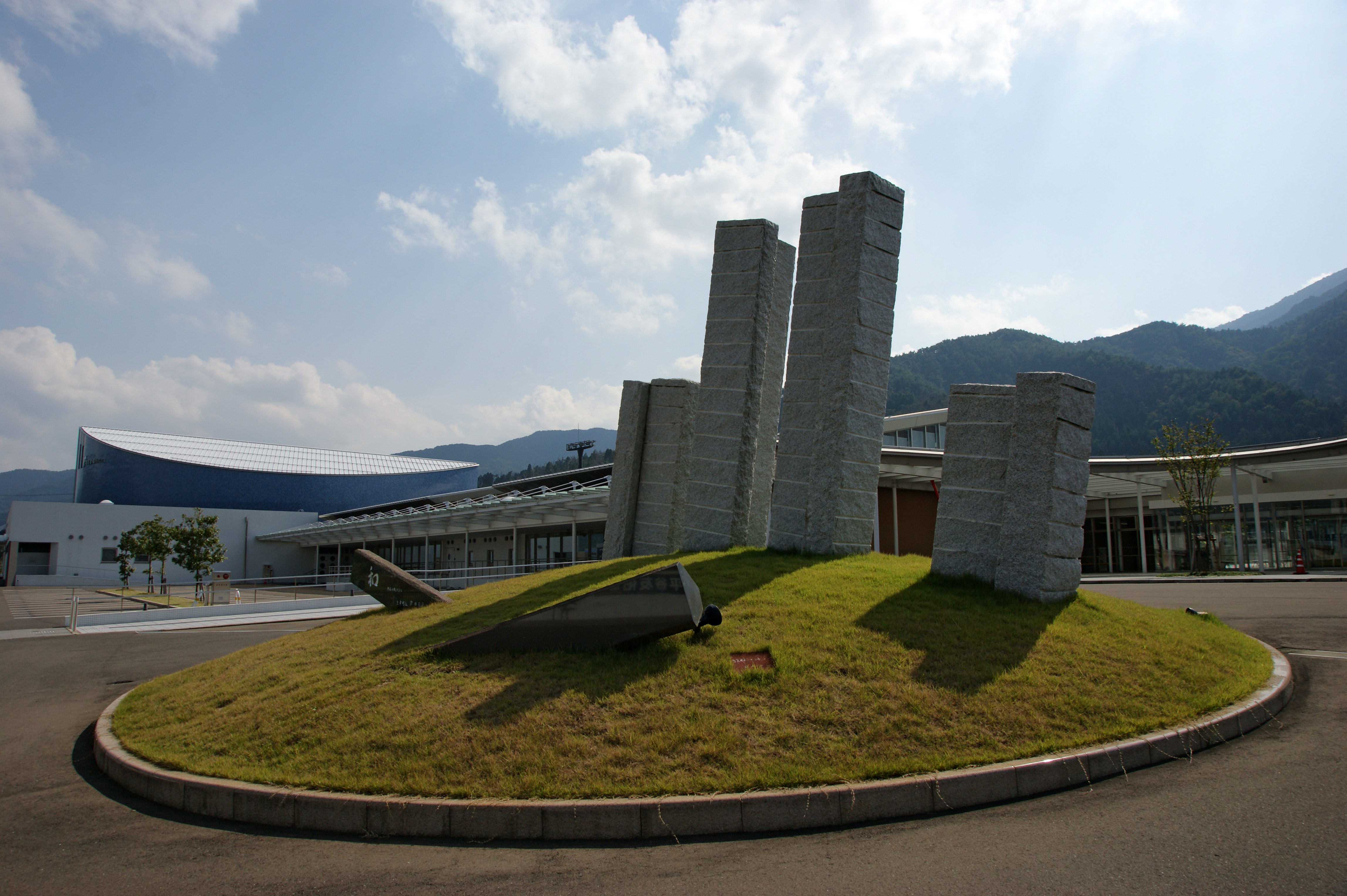 Parea Wakasa, Wakasa, Fukui prefecture, Japan